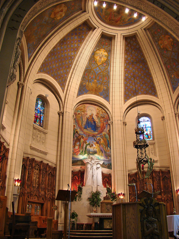 Church of Notre-Dame-du-Saint-Rosaire de Villeray, Montreal, Quebec, Canada. The sanctuary.